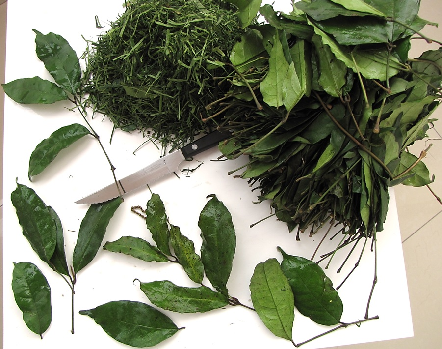 Mfumbwa - leaves of the forest vine Gnetum africanum as sold in the market, showing leaf detail, typical market bundle and finely chopped as customary, usually done by the vendor for the customer at point of sale. Chopped leaves are traditionally cooked in a peanut butter sauce. Mfumbwa - also seen as fumbwa.